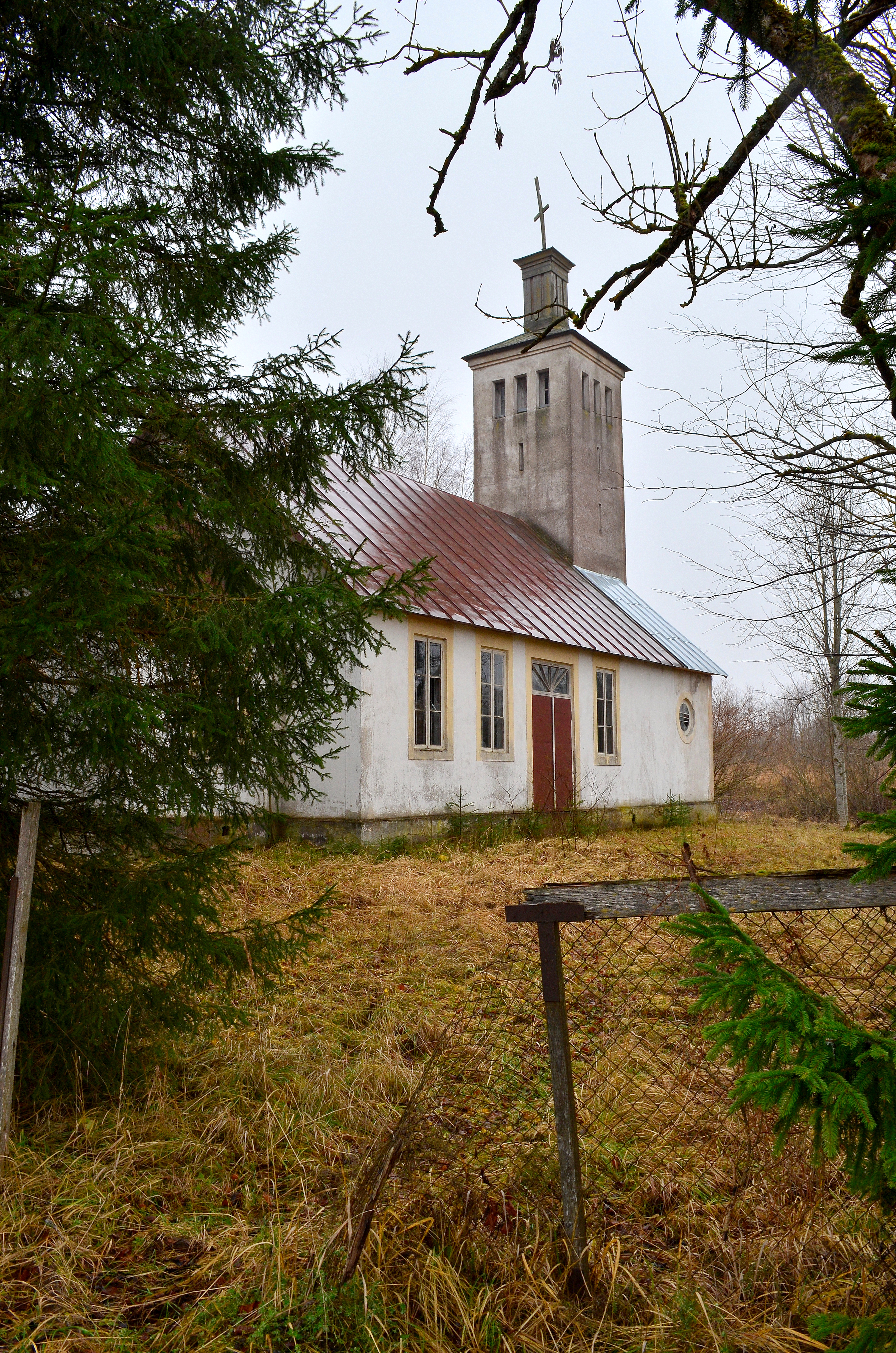 Mõisakula church